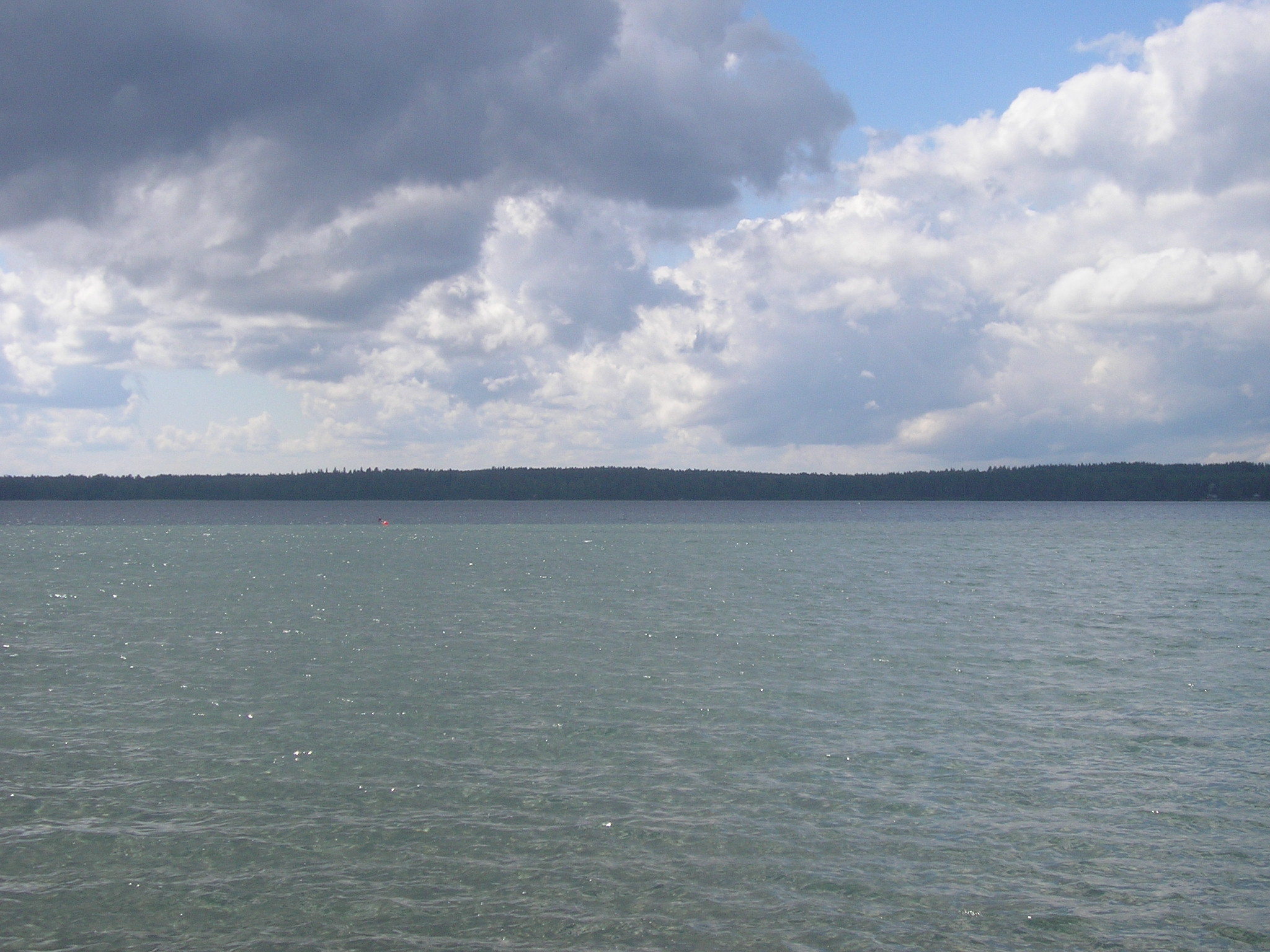 Lake Kuorinka in Liperi, Finland